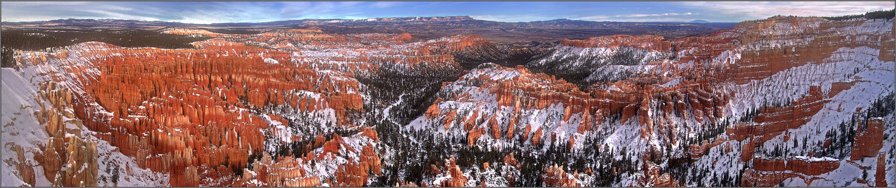 Bryce Canynon National Park, Utah, USA. Panoramic view from Bryce Point looking at the Amphitheater and Bryce Creek